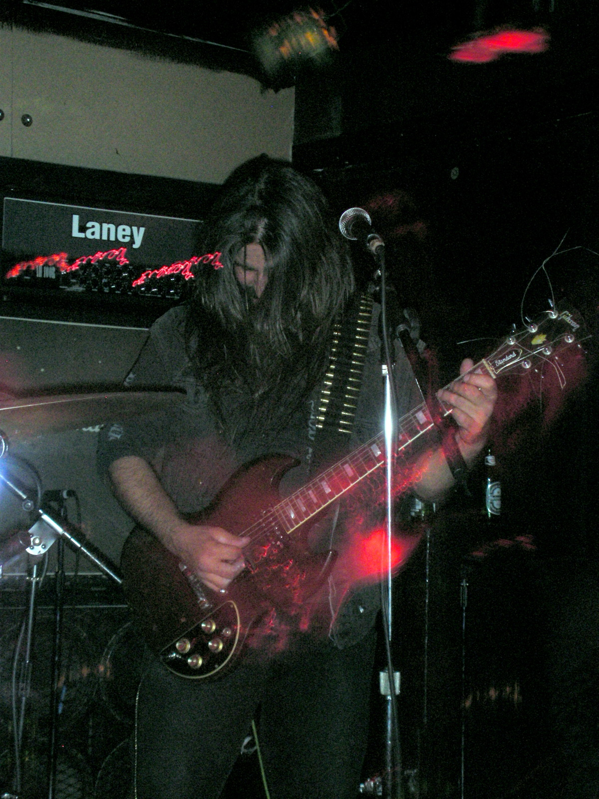 musician John Gossard (of Weakling, Asunder)